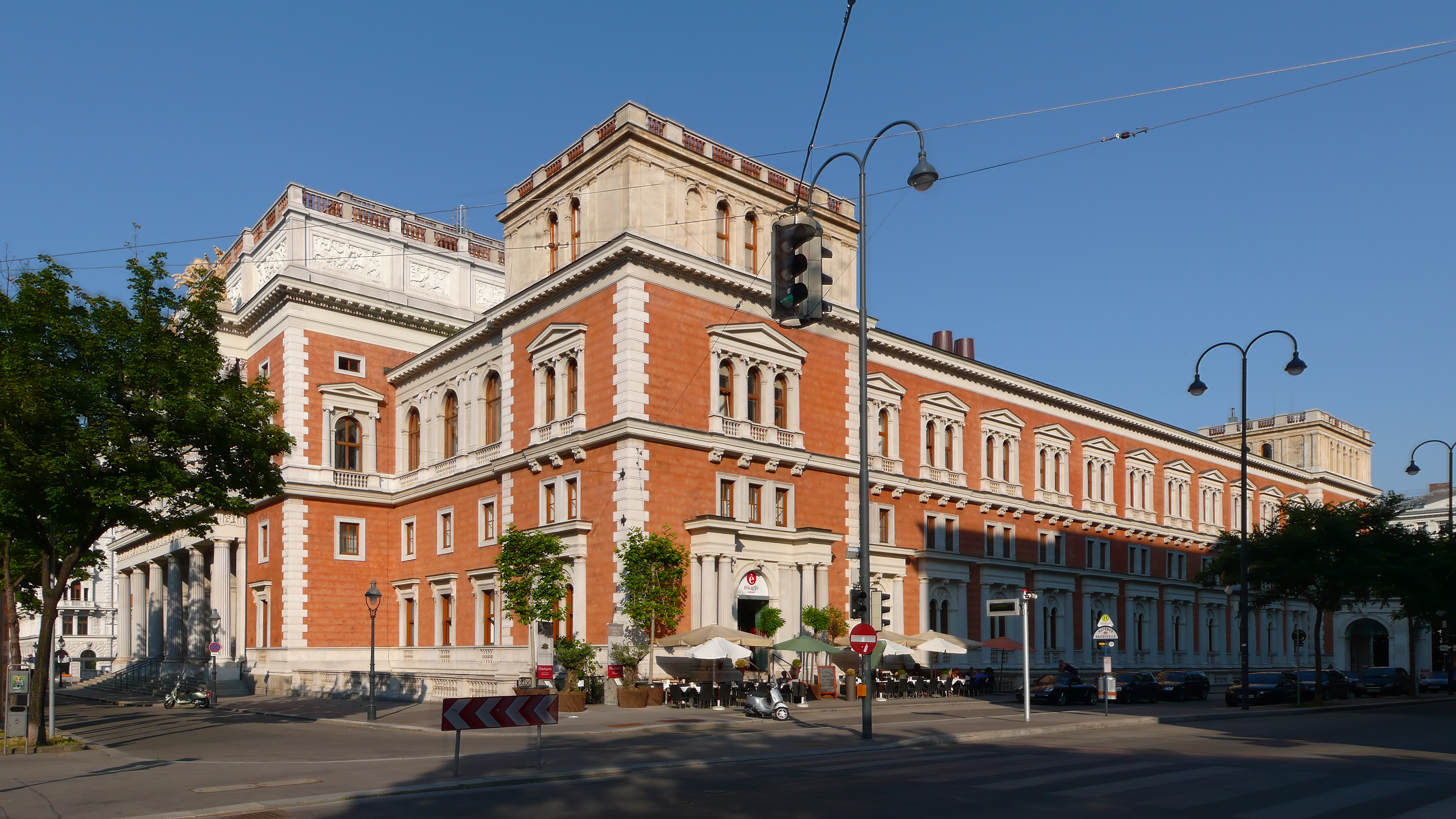 Stock Exchange Wiener Börse (Gebäude) in Vienna Innere Stadt